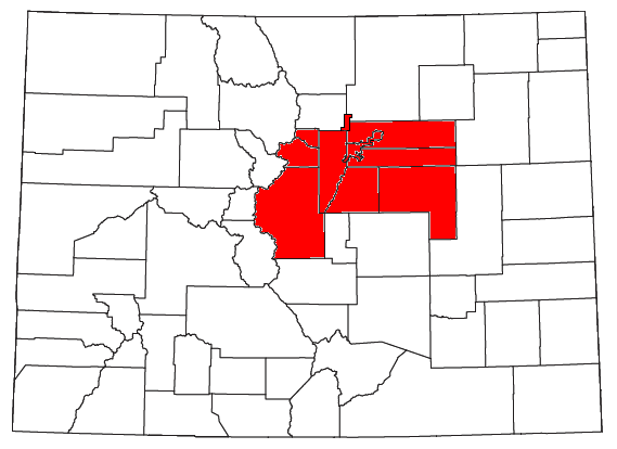 Locator map of the Denver-Aurora Metropolitan Statistical Area in the central part of the U.S. state of Colorado.